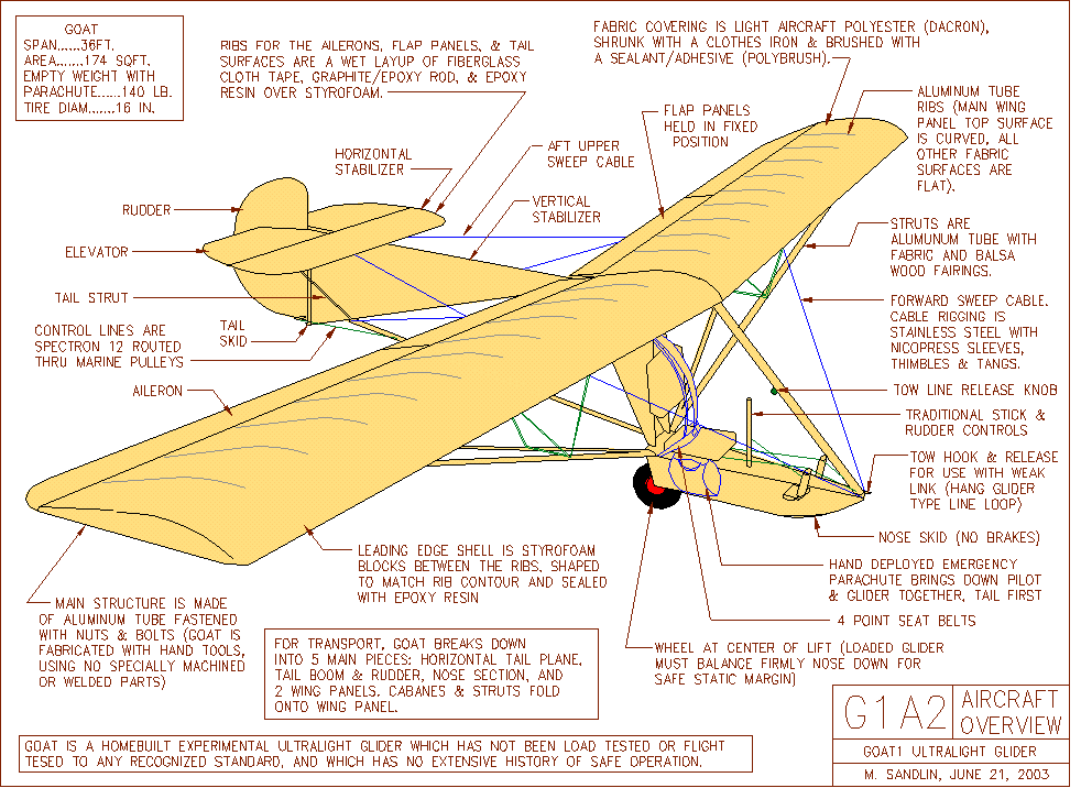 Technical drawing of the Sandlin Goat glider taken from the set of public domain drawings. Converted from .gif to .png file format.